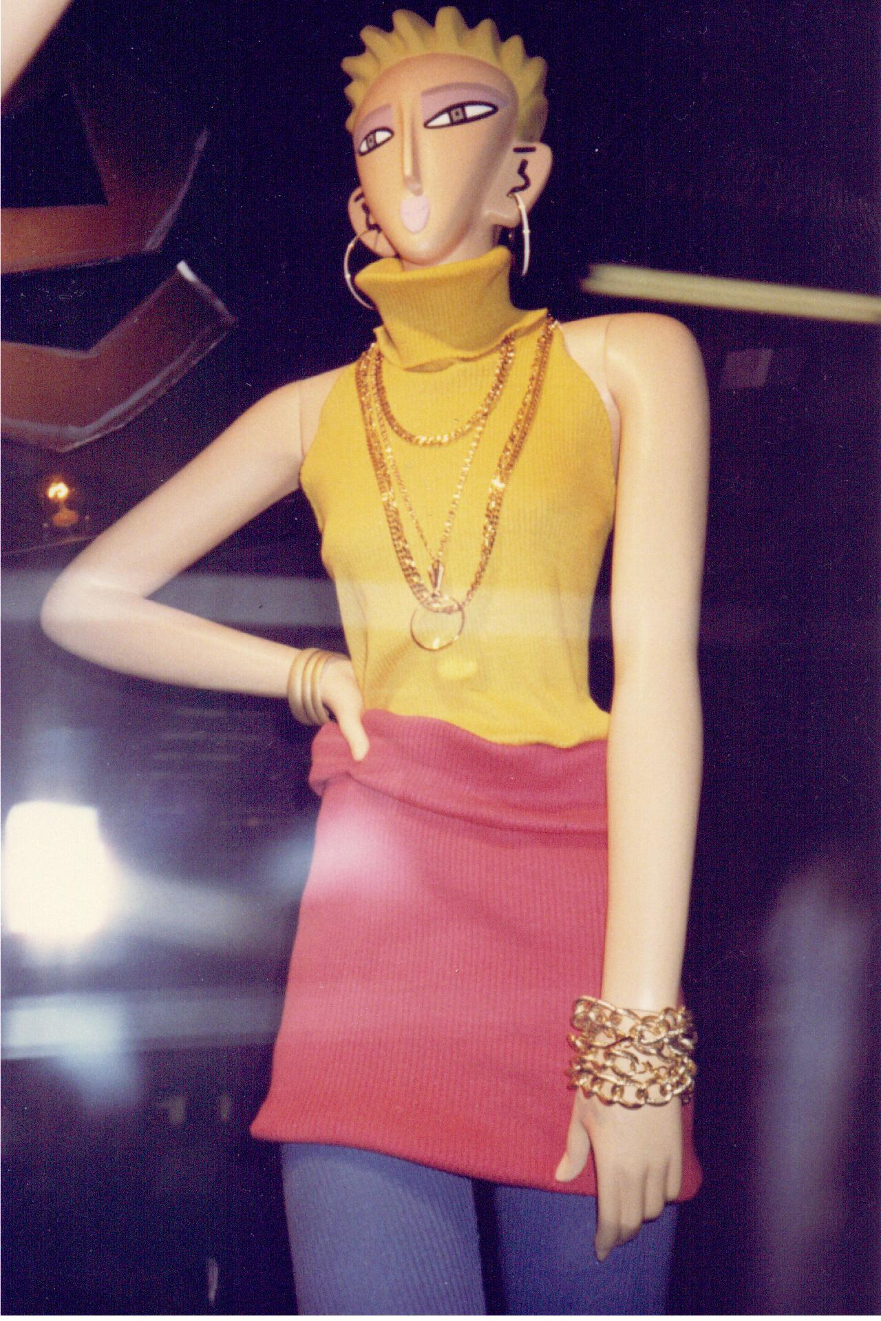 Photo personally taken by artist of his own work (ie, mannequin based on his artwork). No copyright on photo itself.